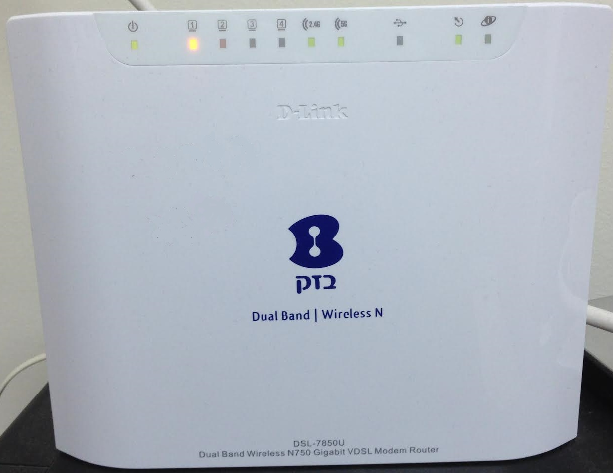 Bezeq D-Link VDSL 7850U modem router